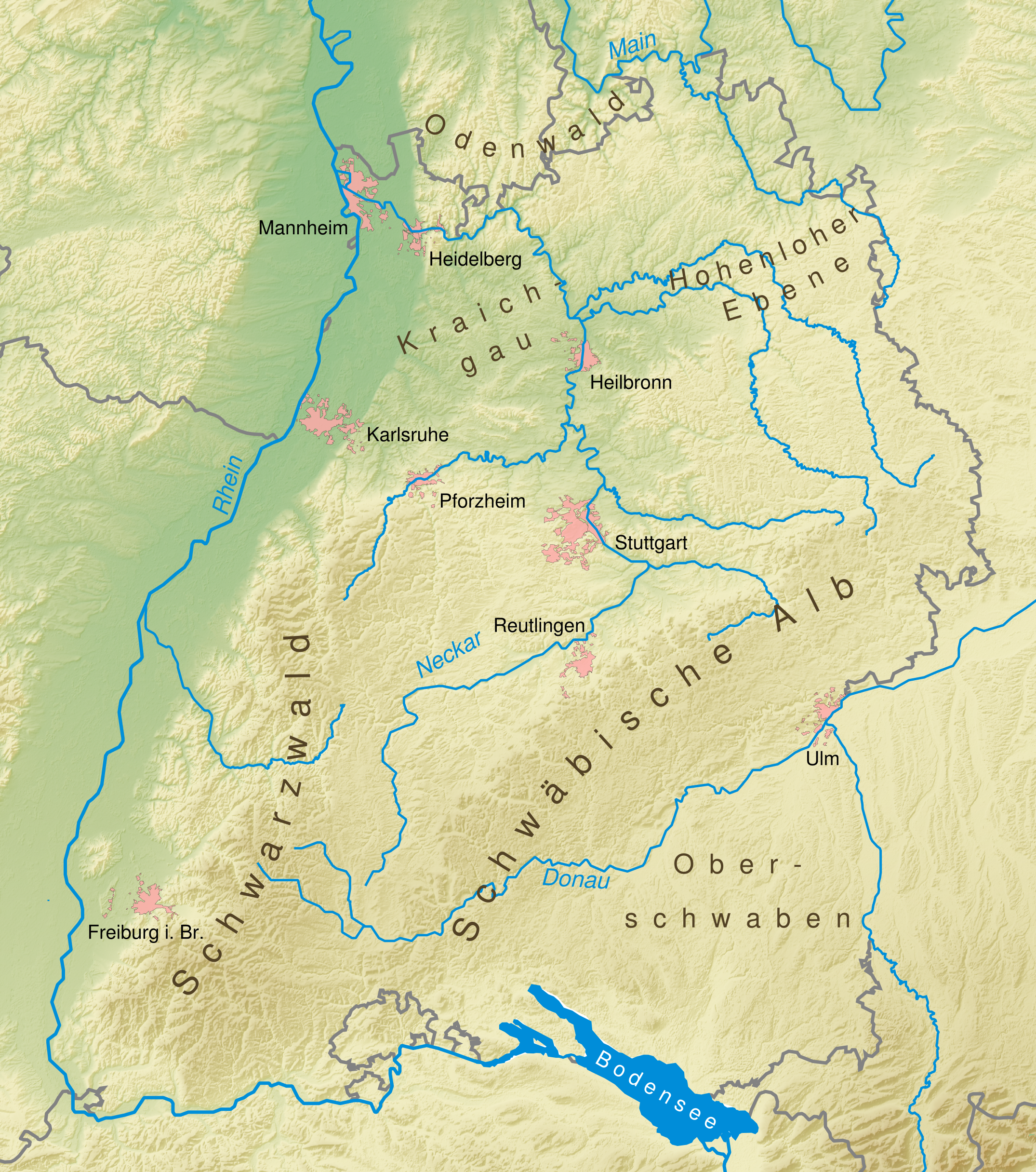 Physical map of the German state of Baden-Württemberg with cities with a population of more than 100,000